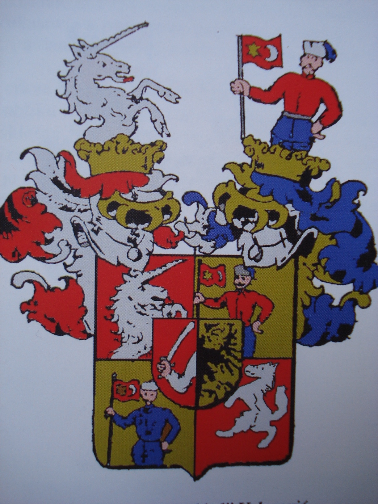 Coat of arms of the Vukasović noble family, Croatia.